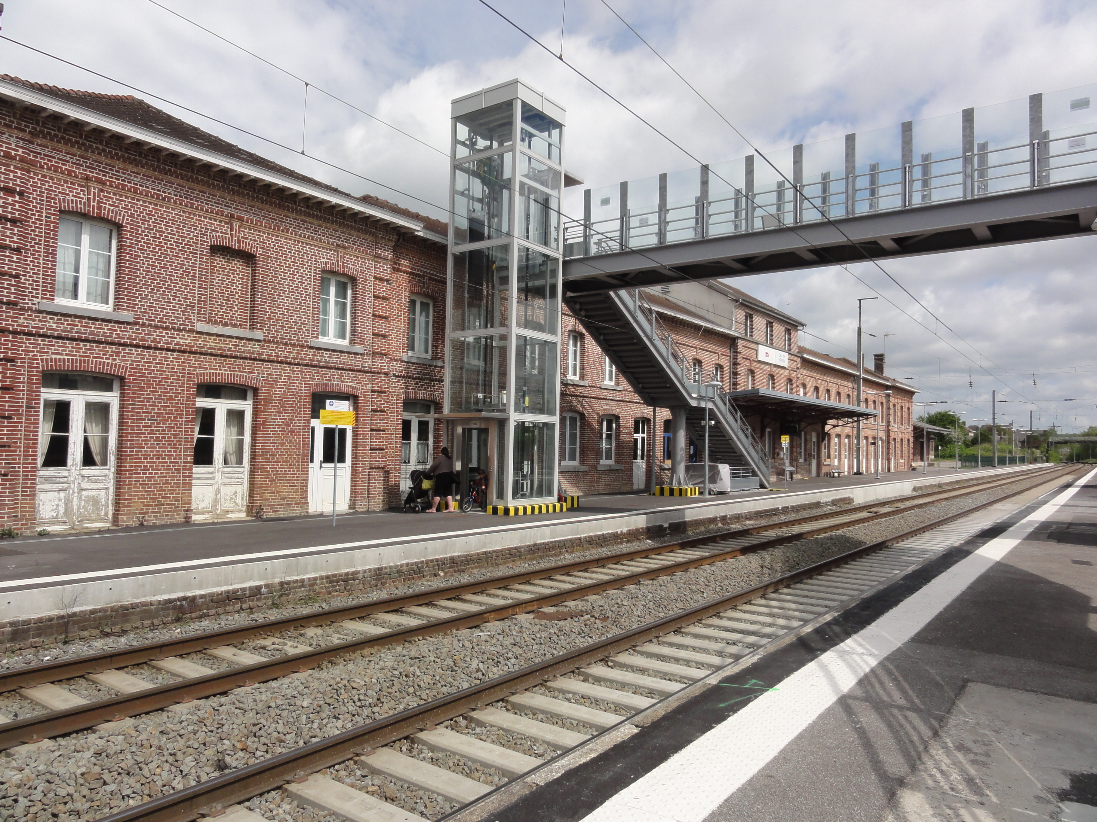 Hirson (Aisne) la gare, quais, passerelle et ascenseur